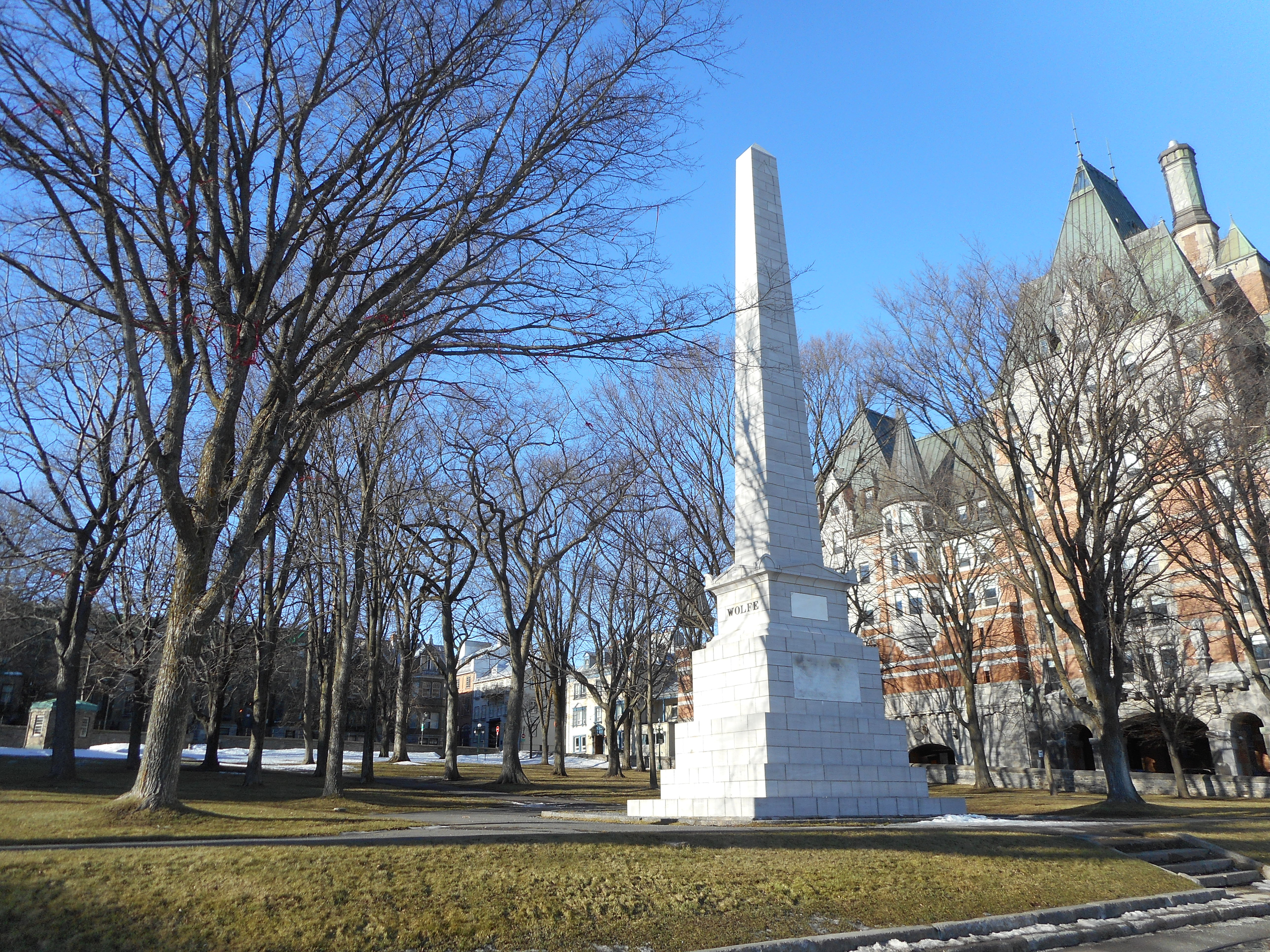 Wolfe-Montcalm monument in Governors’ Garden beside the Château Frontenac Hotel, Quebec City